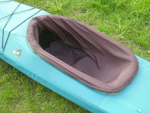 An example of a sea sock from Black Dog Kayaks. Photo is in the public domain.